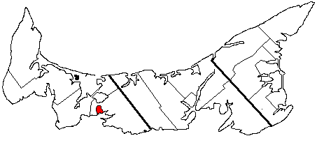 Adapted from existing Prince Edward Island election results maps to depict a specific electoral district.